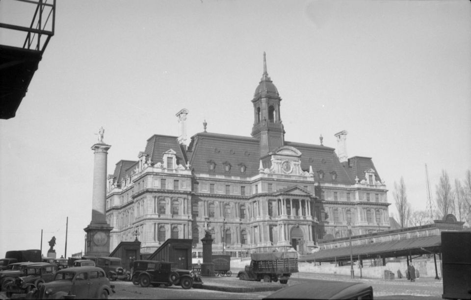 We see the building of the Montreal City Hall on Notre Dame.